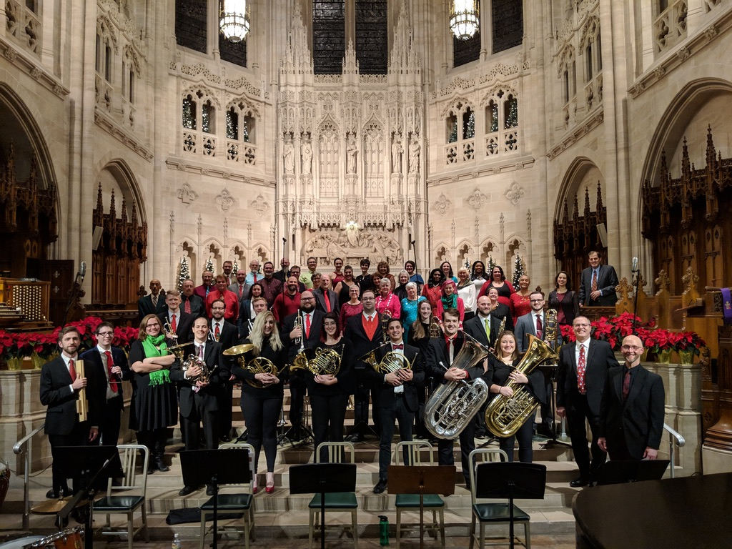 Christmas in East Liberty 2018